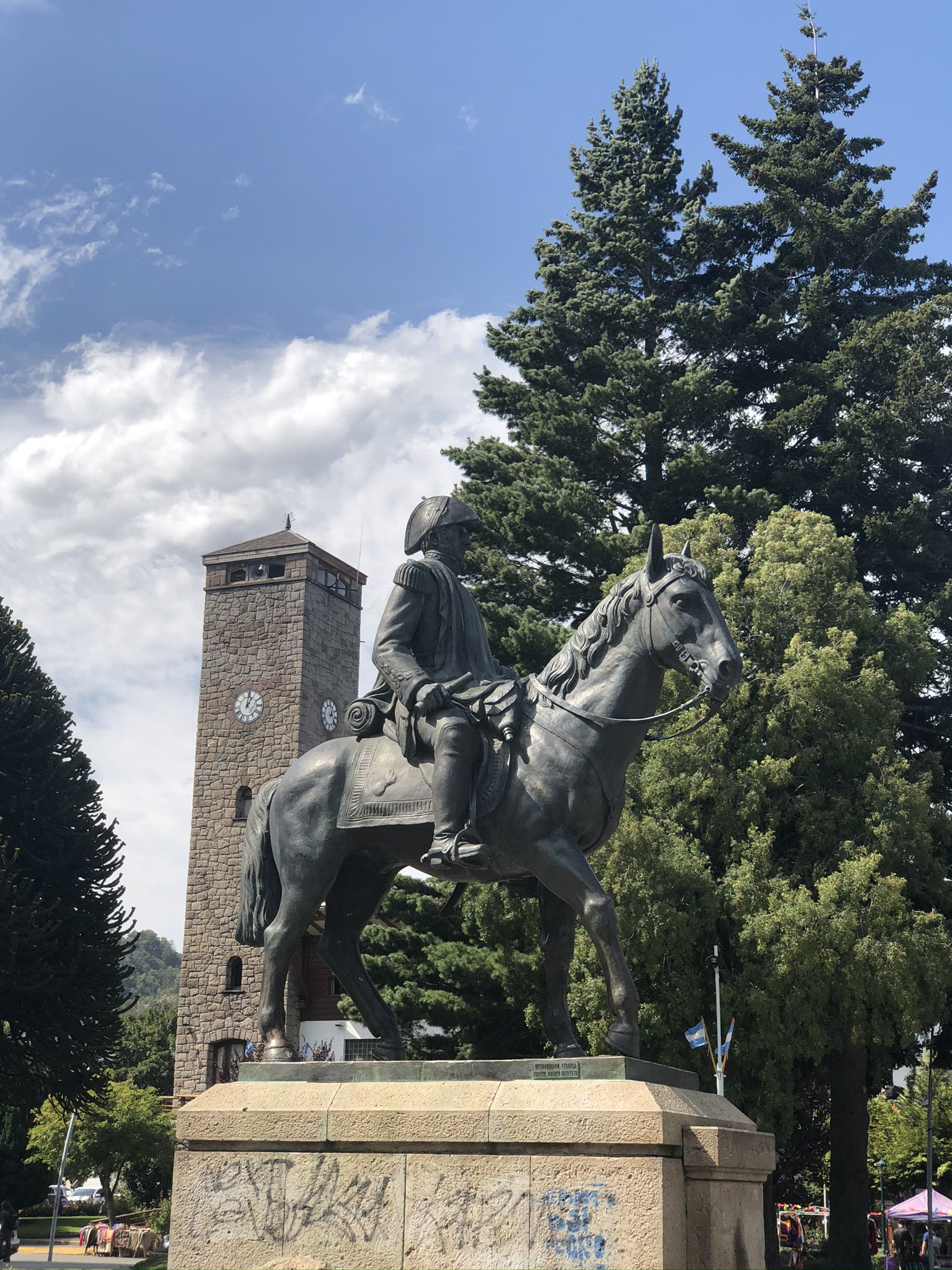 Photo taken in Plaza San Martín. San Martín de los andes